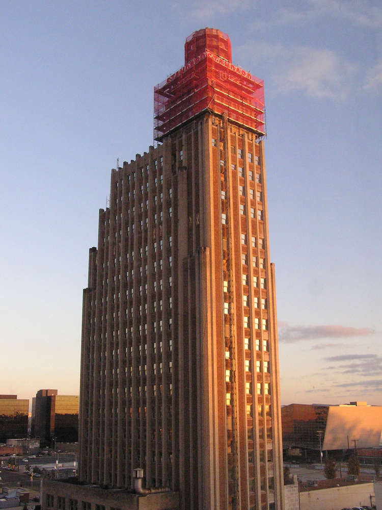 Standard Life Building; Jackson, Mississippi; December 2009